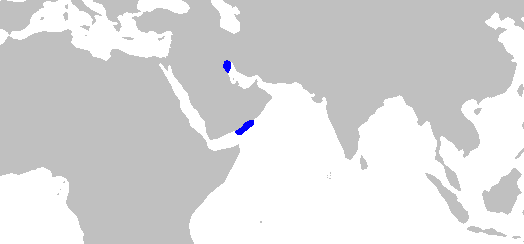 Distribution map for Carcharhinus leiodon